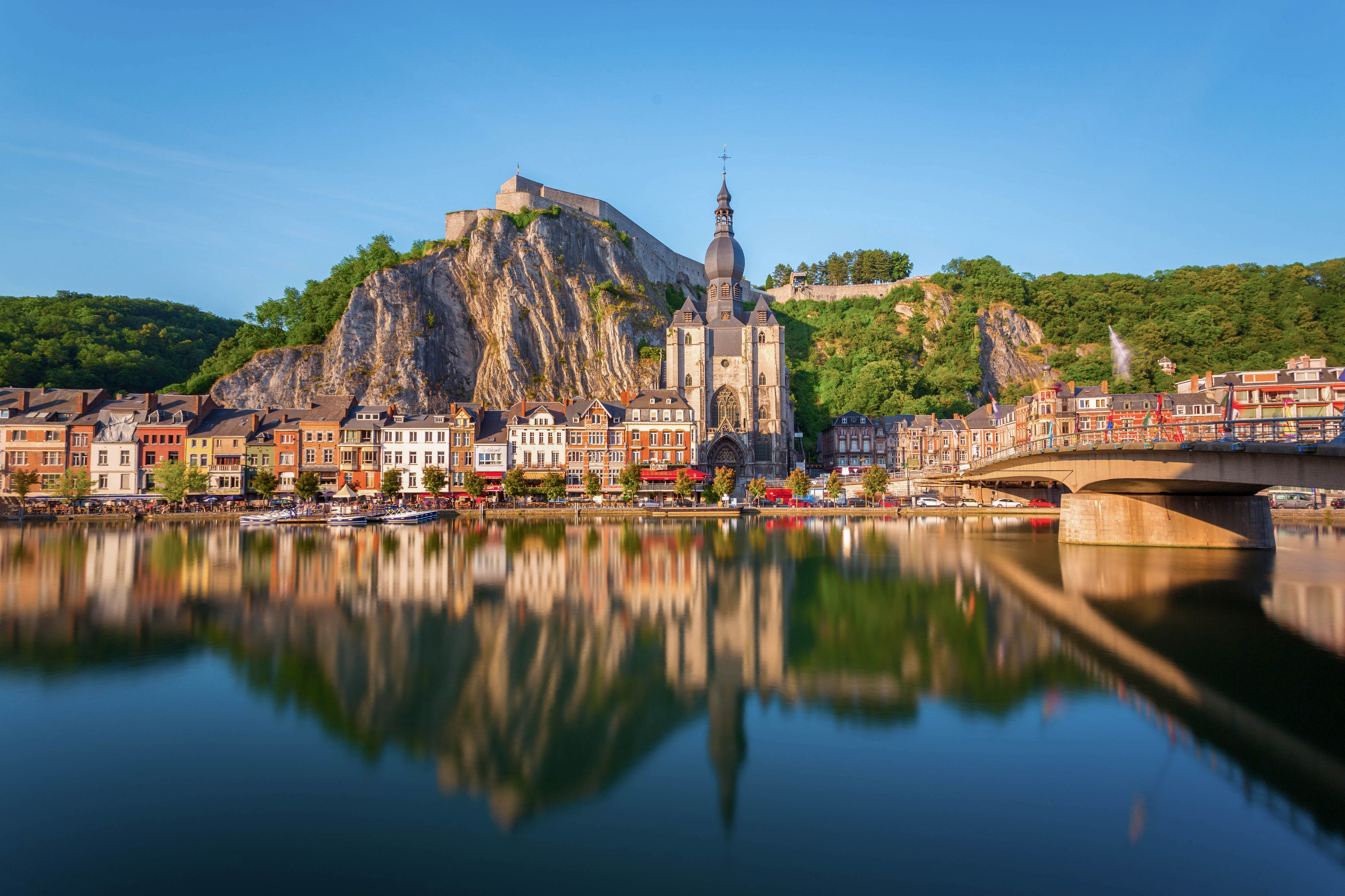 Dinant reflected